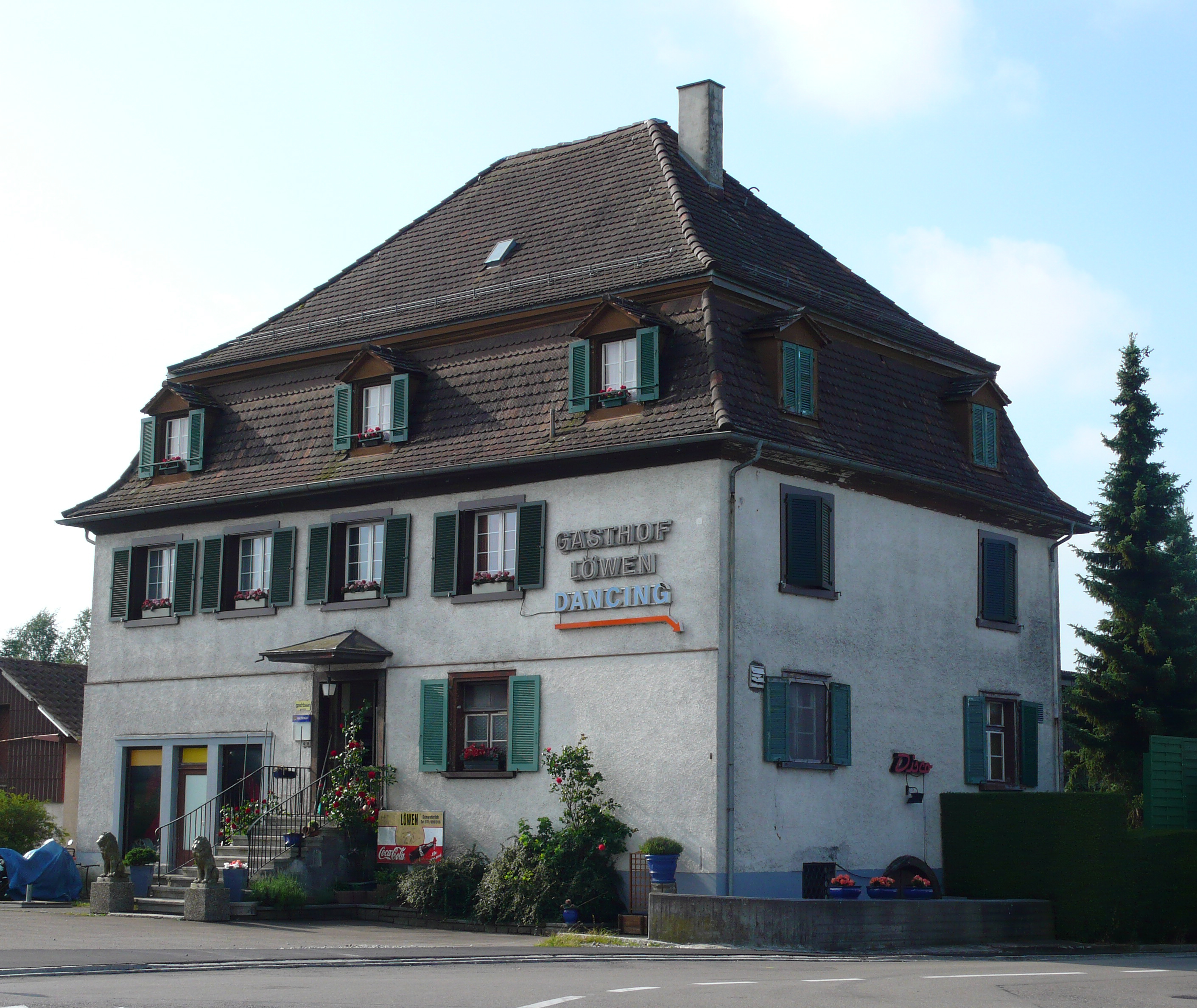 "Löwen" inn in Schwaderloh, Swizterland.